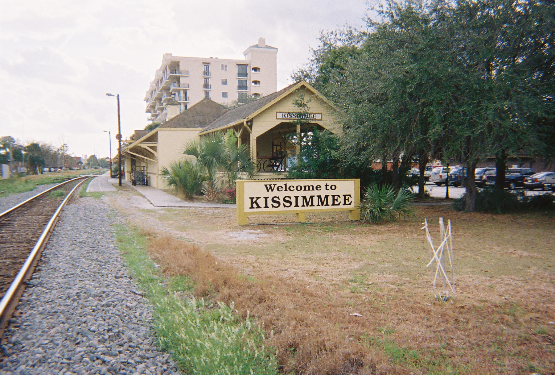 Kissimmee (Amtrak station), a former Atlantic Coast Line Railroad depot in Kissimme, Florida. This is a southwest view that includes the Welcome sign, and an old-fashioned luggage cart on display in the back. Unlike my attempt to capture the old-fashioned luggage cart on display at Winter Haven (Amtrak station), this attempt was a success.